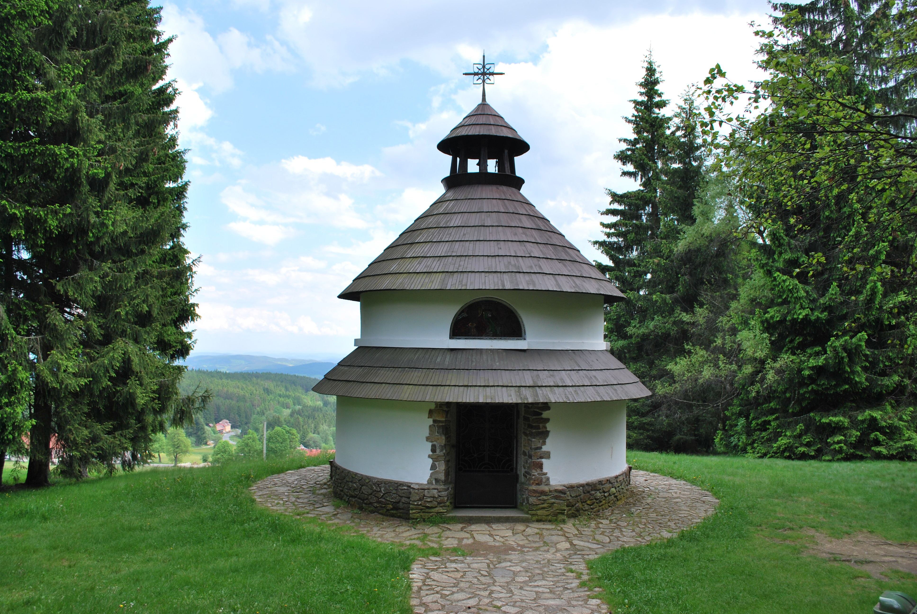 Javorník, part of village Vacov in Prachatice District, Czech republic. Chapel of sant Antonín This photograph was taken within the scope of the 'Czech Municipalities Photographs' grant.